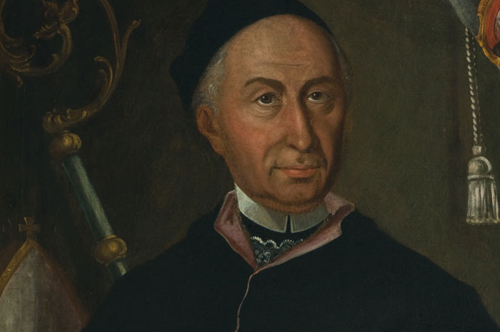 The abbot of the bavarian monastery Metten Adalbert Tobiaschu (1694-1771)